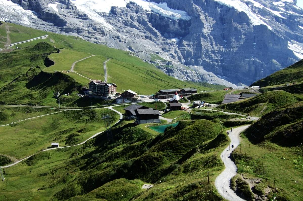 Kleine Scheidegg, between grindelwald and Wengen